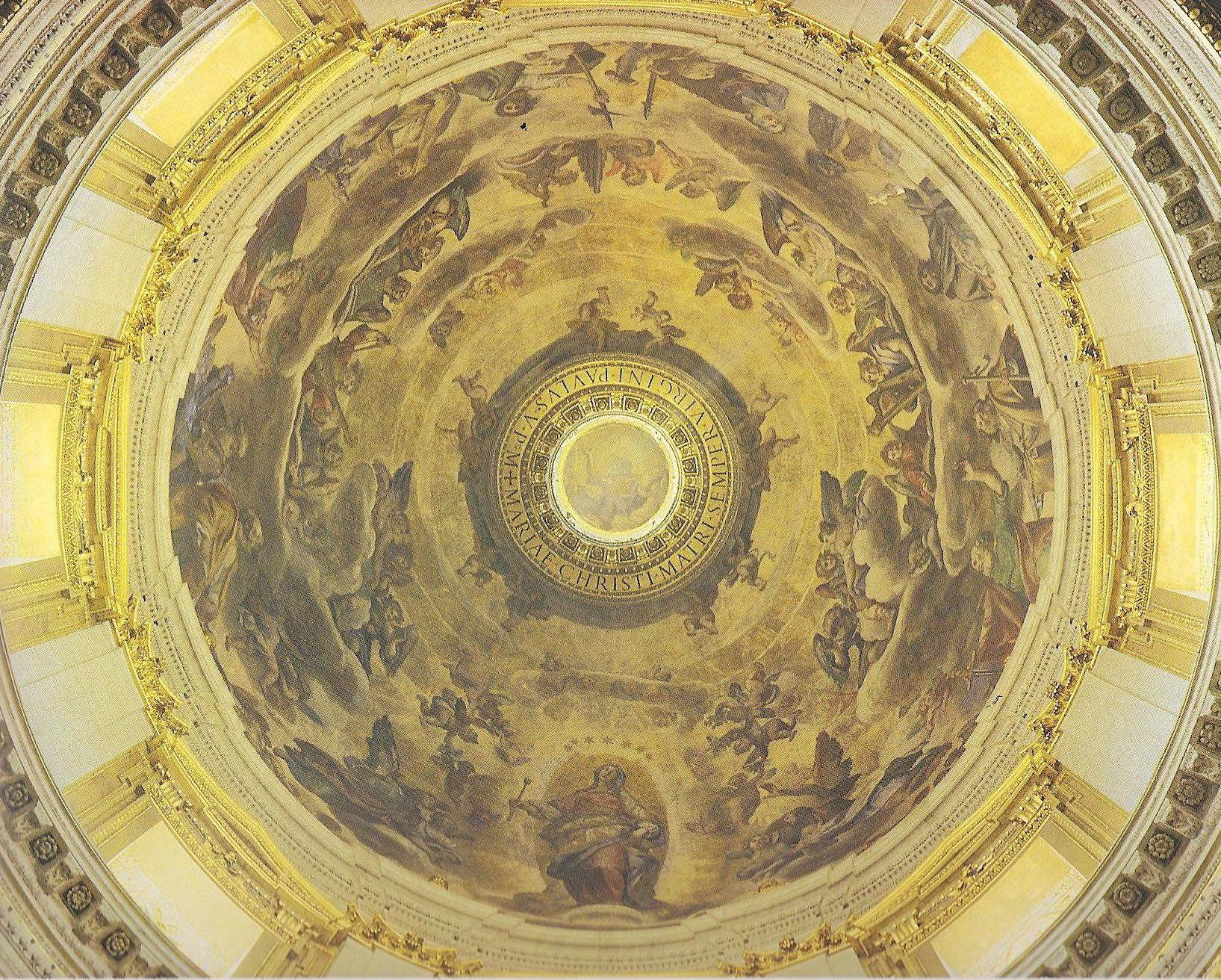 Opere del Cigoli